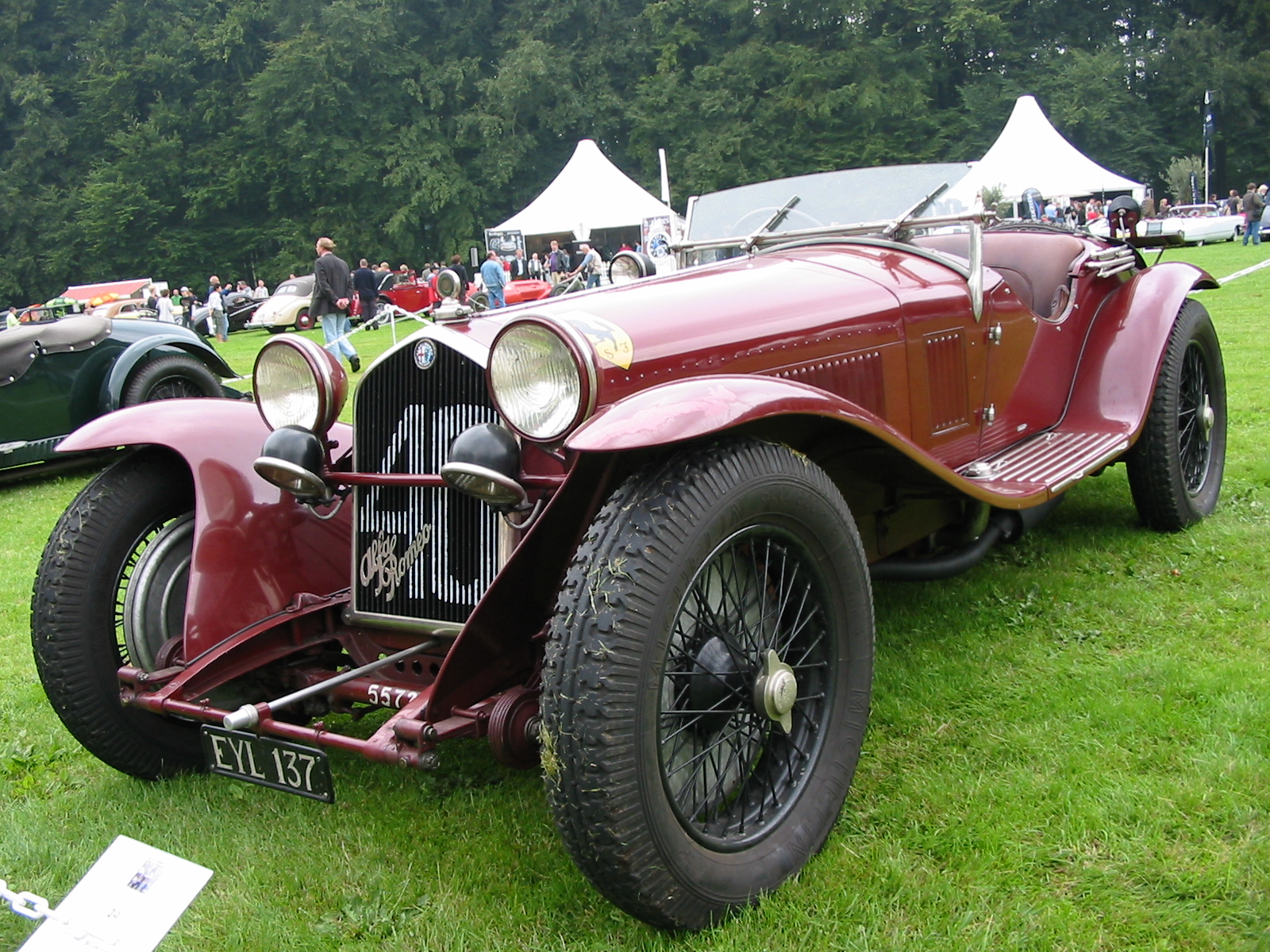 1932 Alfa Romeo 8C 2300 Corto, Team Scuderia Ferrari. The license plate "EYL 137" indicates this is serial number 2111027, an Alfa Romeo 8C 2300, 1932 model "corto" (short wheelbase), according to an auction in 2001.[1] Bloomberg claims it is one of three that Scuderia Ferrari prepared for the 1932 Mille Miglia, but that this car (on the picture) did not actually race. It was first a Zagato spider, then a coupe, then (back to) roadster.[2]